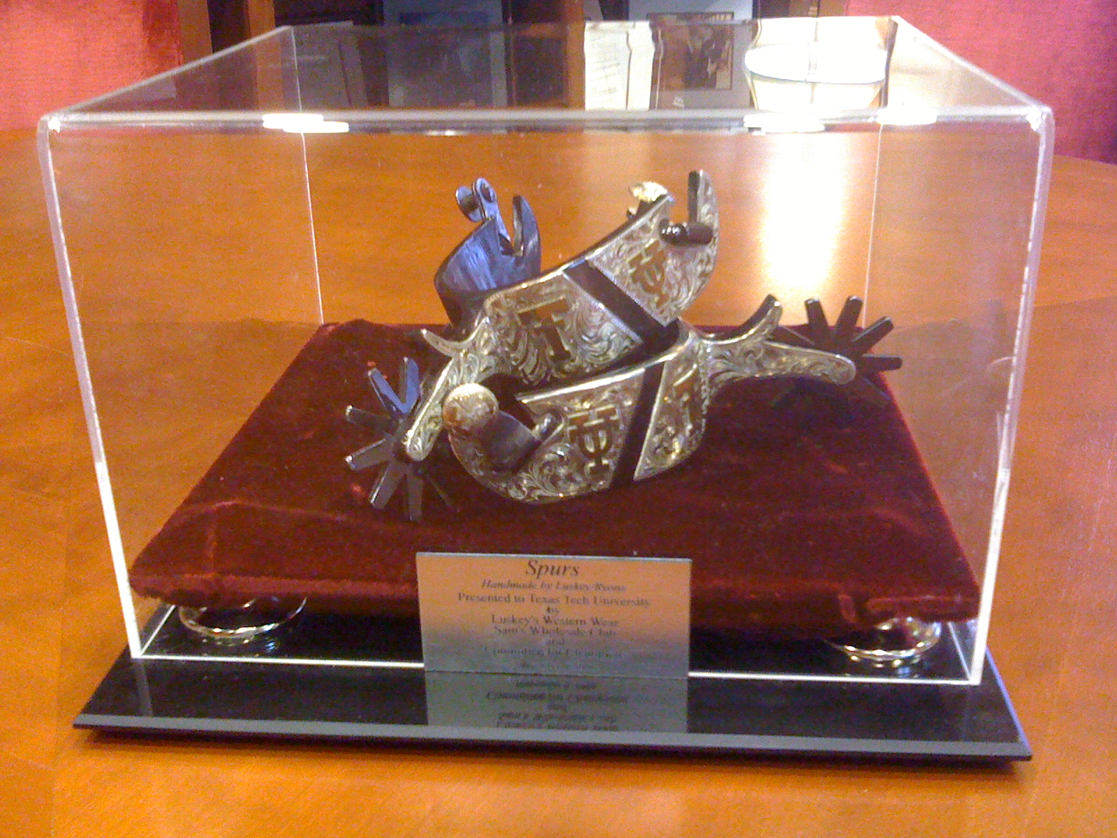 This is a picture of the Chancellor's Spurs Trophy that lives with the winning team of the game between The University of Texas and Texas Tech University. The trophy is passed between the chancellors of the university systems.